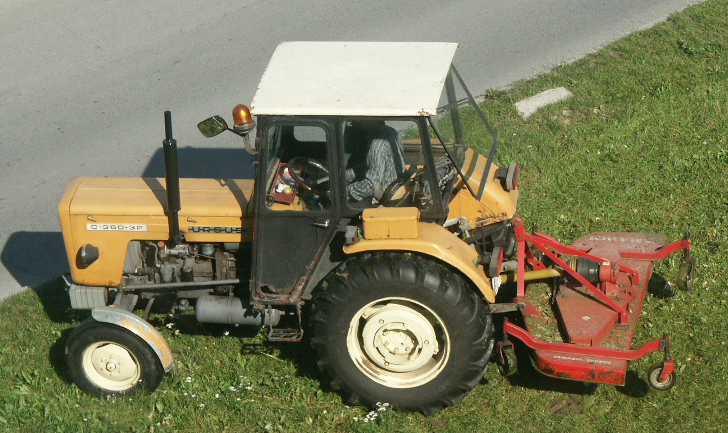 Polish Ursus C-360-3P tractor. Perkins engine.